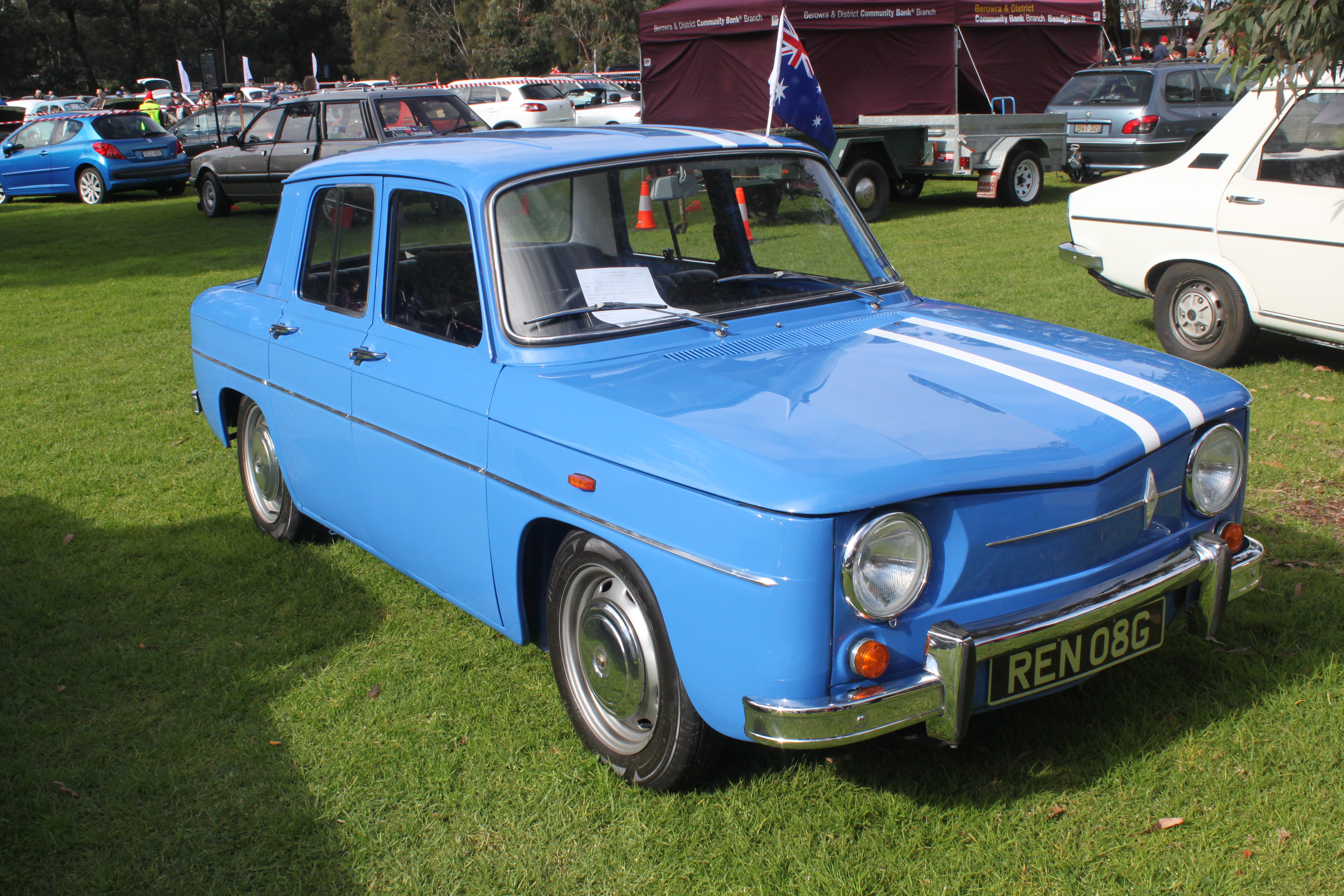 All French Day, Silverwater Park, NSW July 2015